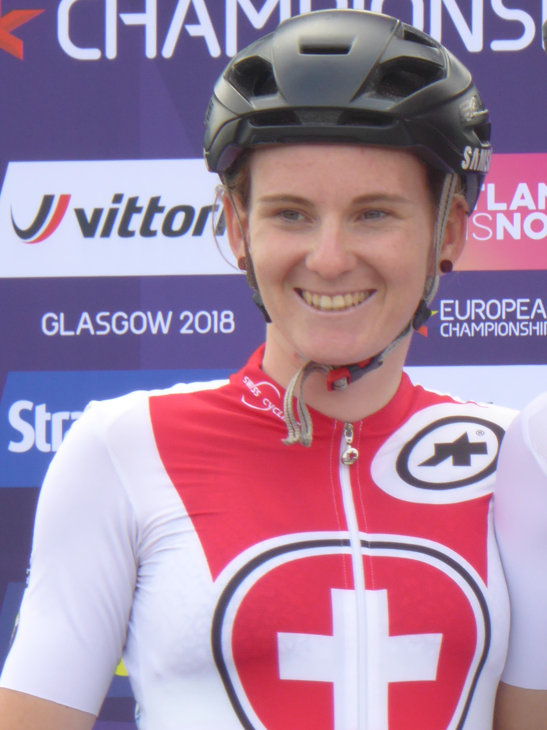 Désirée Ehrler (Switzerland), prior to the women's road race at the 2018 UEC European Road Cycling Championships in Glasgow.